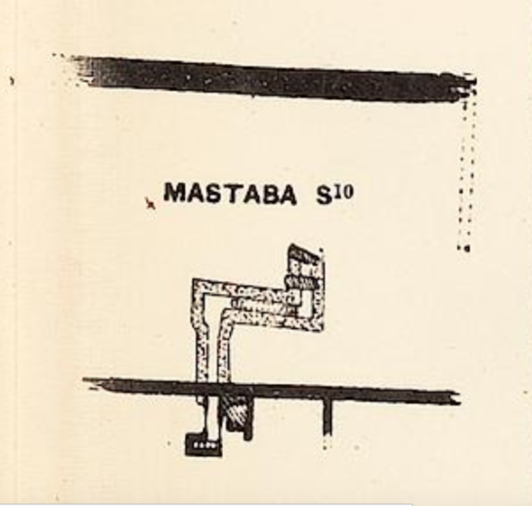 Plan of the Abydos tomb S10 as drawn by Ayrton, Weigall and Petrie following the 1901-1902 excavations in Egypt. Now believed to be the tomb of Sobekhotep IV